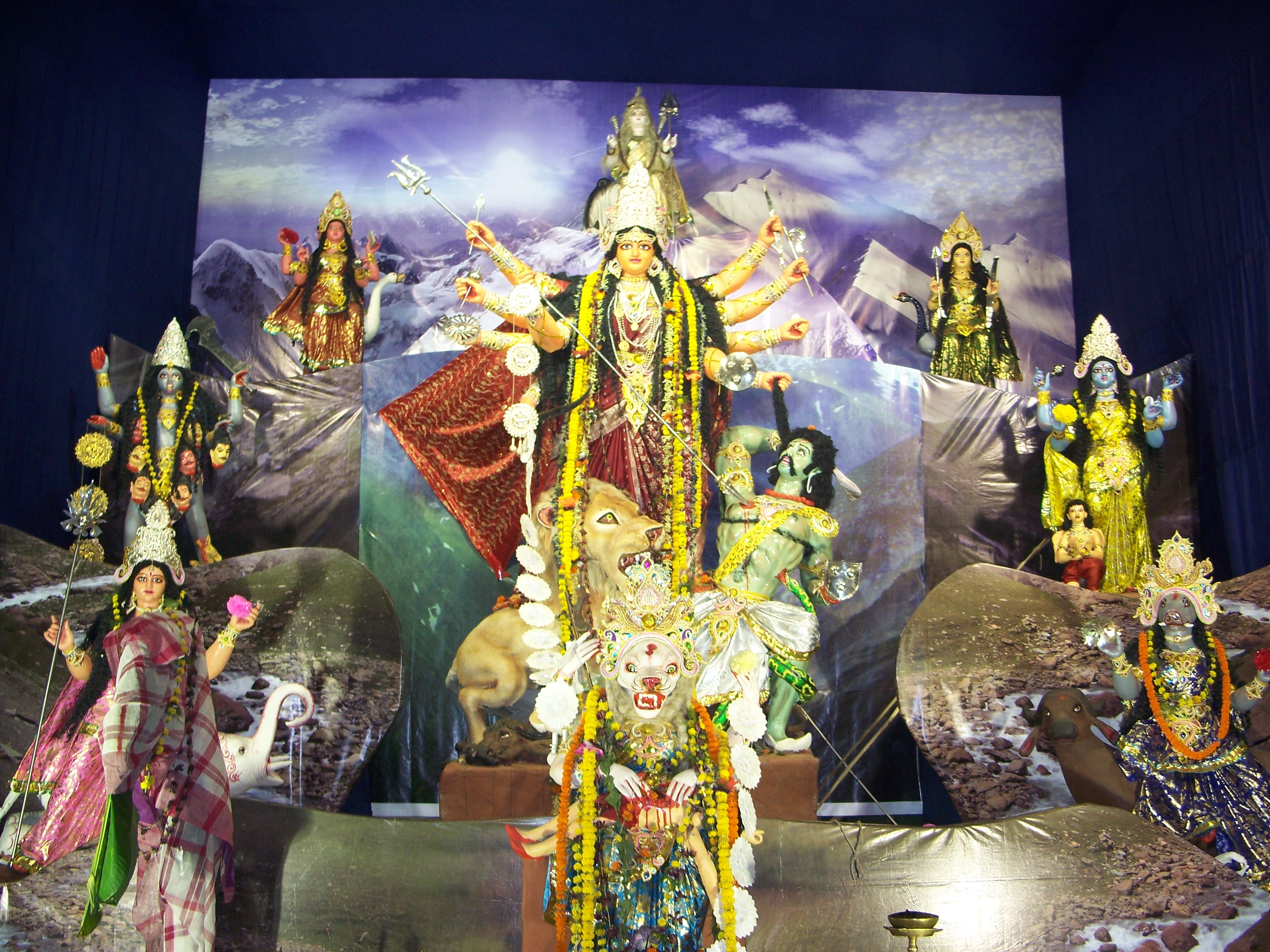 This is a picture of Durga (centre) 7 Matrikas (clockwise from left top): Brahmi, Kaumari, Vaishnavi, Varahi, Narasimhi, Indrani and Chamunda. This image was taken @ Shibpur,Howrah.State:West Bengal.Country:India.